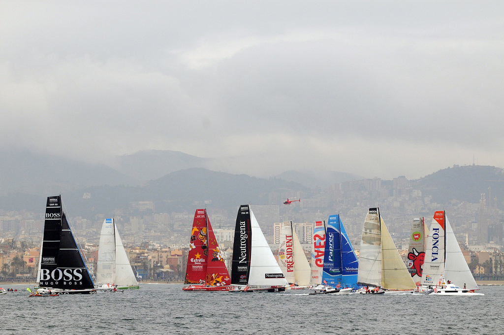 Barcelona World Race